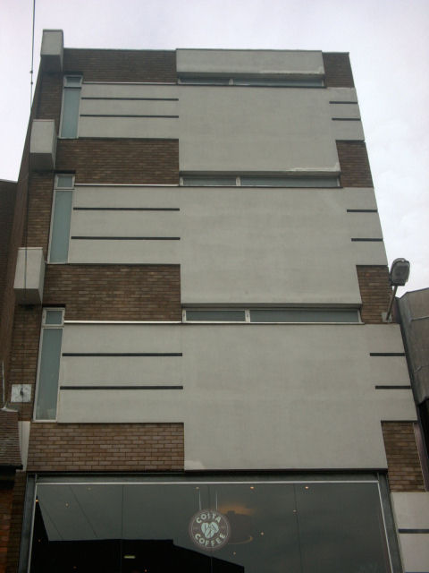 A modern shop building in Aylesbury, Buckinghamshire. It is architecturally interesting, currently housing a coffee shop.